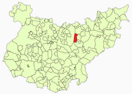 La Haba